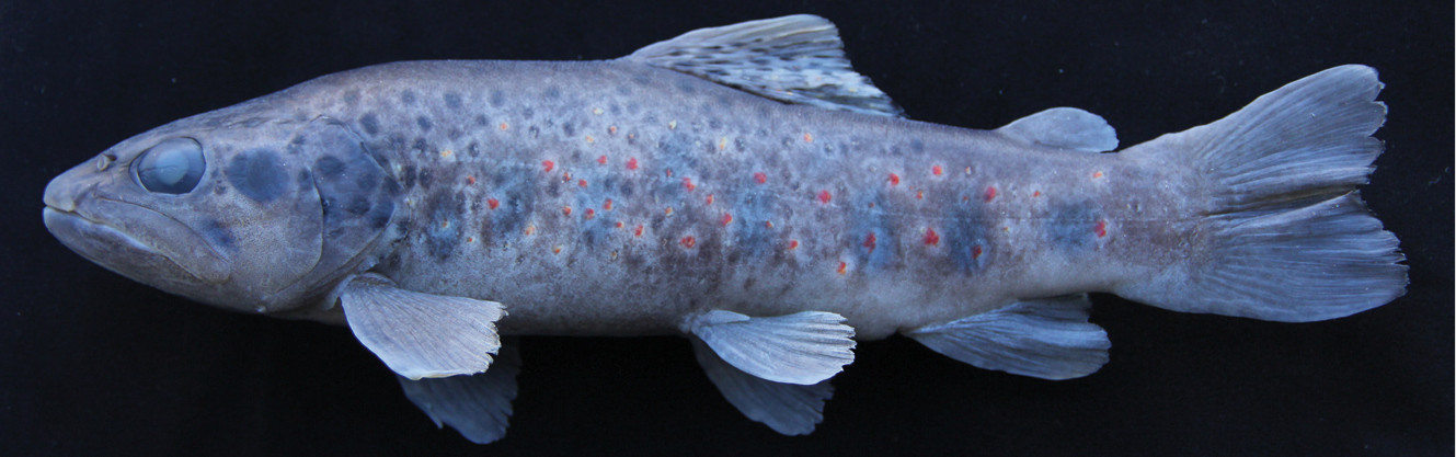 Salmo kottelati - male, 205 mm (Turkey, Antalya Province, Alakir Stream) - Holotype FFR 03180